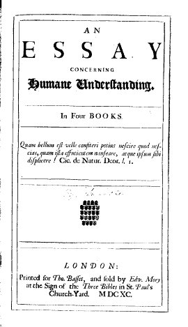 Locke, John. Essay Concerning Human Understanding. Early English Books Online. Author has been dead for over a hundred years.